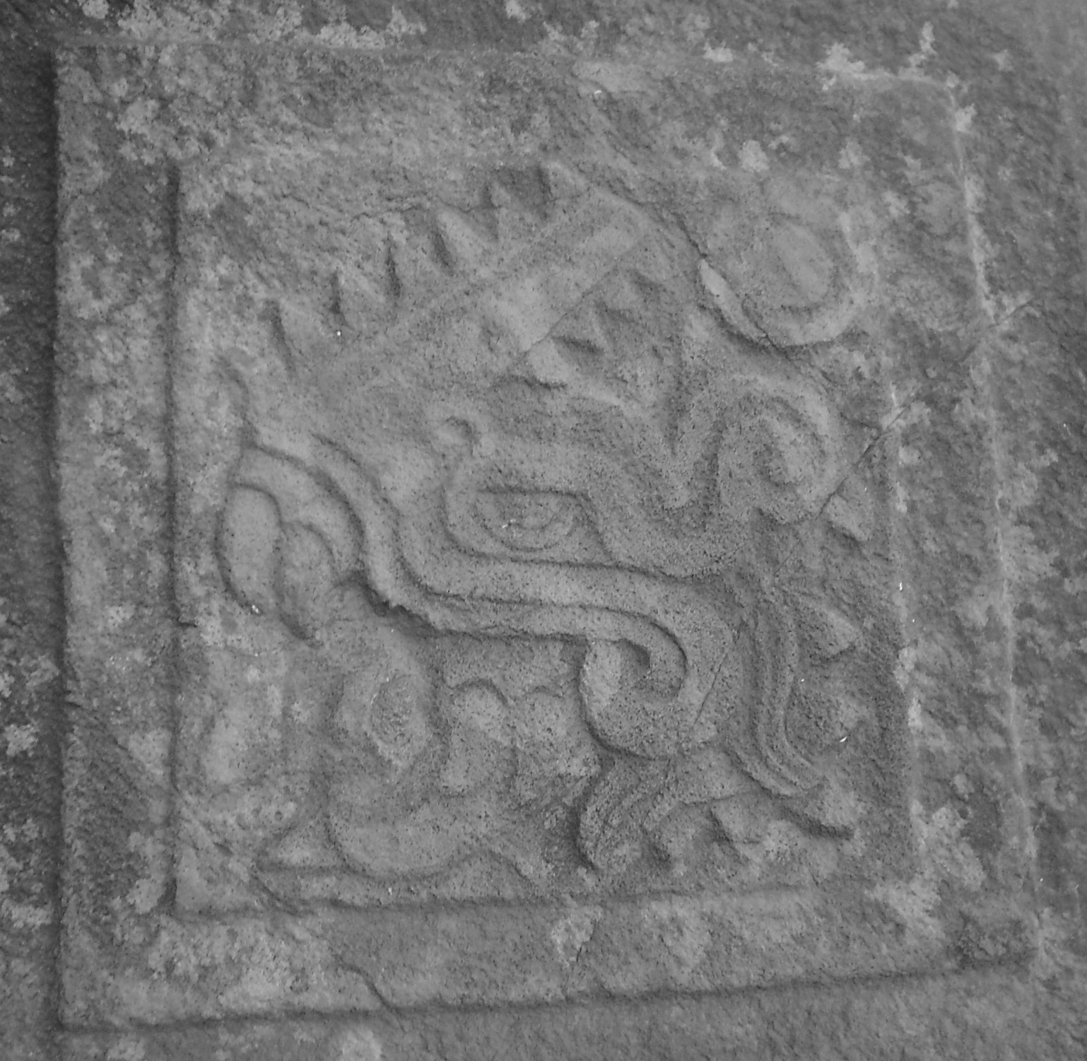 Cuahilama petroglyph3